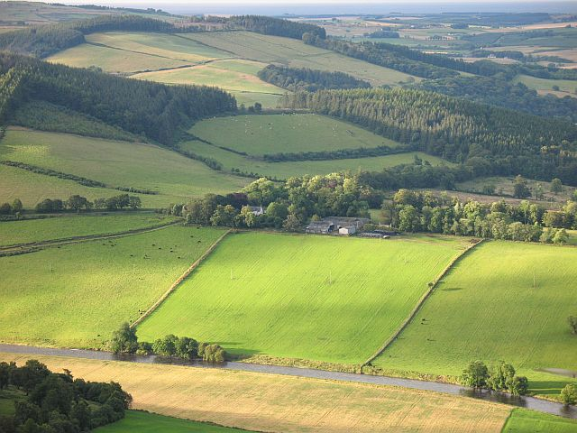 Mains of Mayen Farm beside the Deveron.